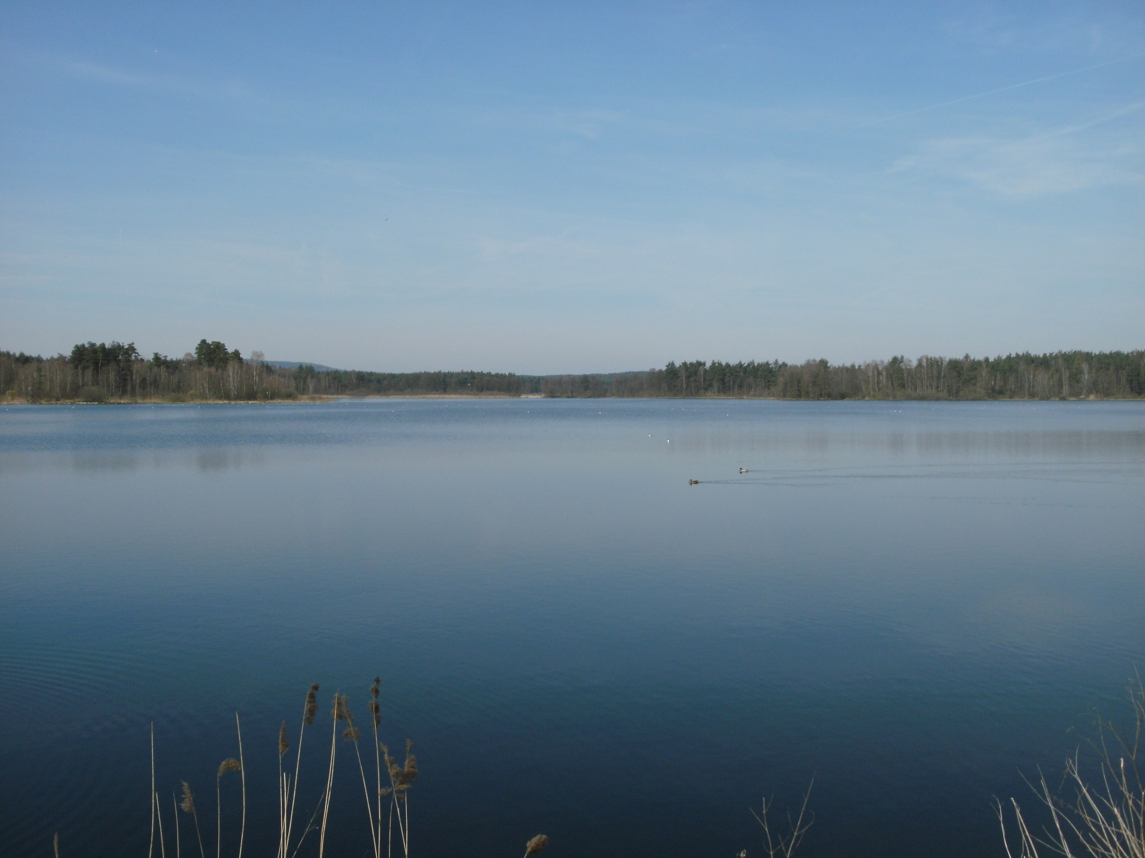 Lake Russweiher in April 2011